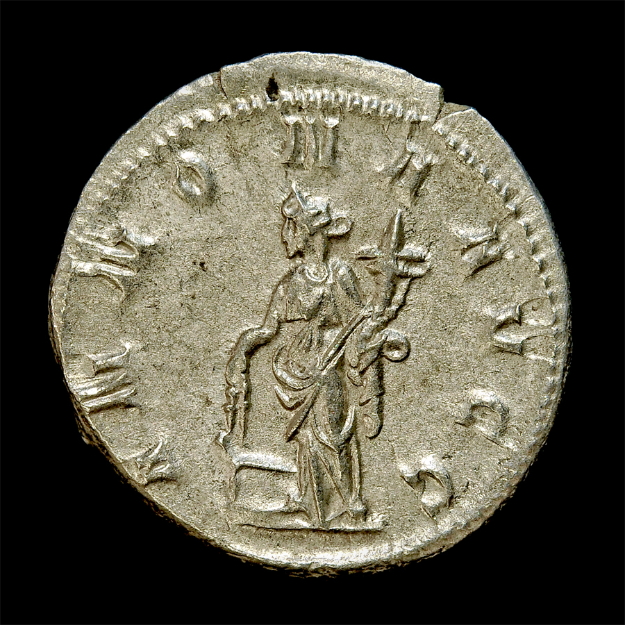 Ancient Roman Coin, Reverse. Philip, emperor 244-249 A.D.